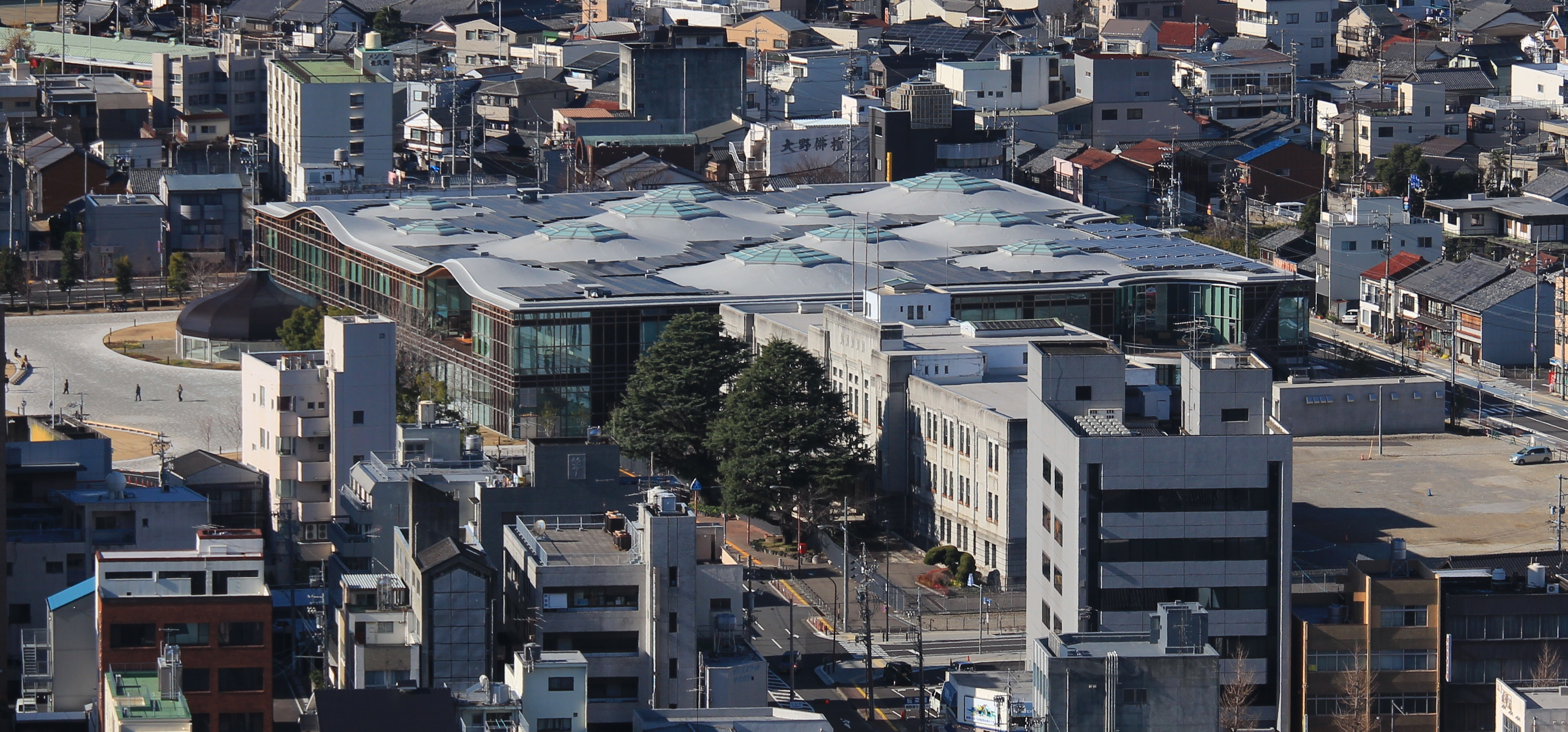 Gifu Media Cosmos seen from Mount Kinka in Gifu city, Gifu prefecture, Japan.